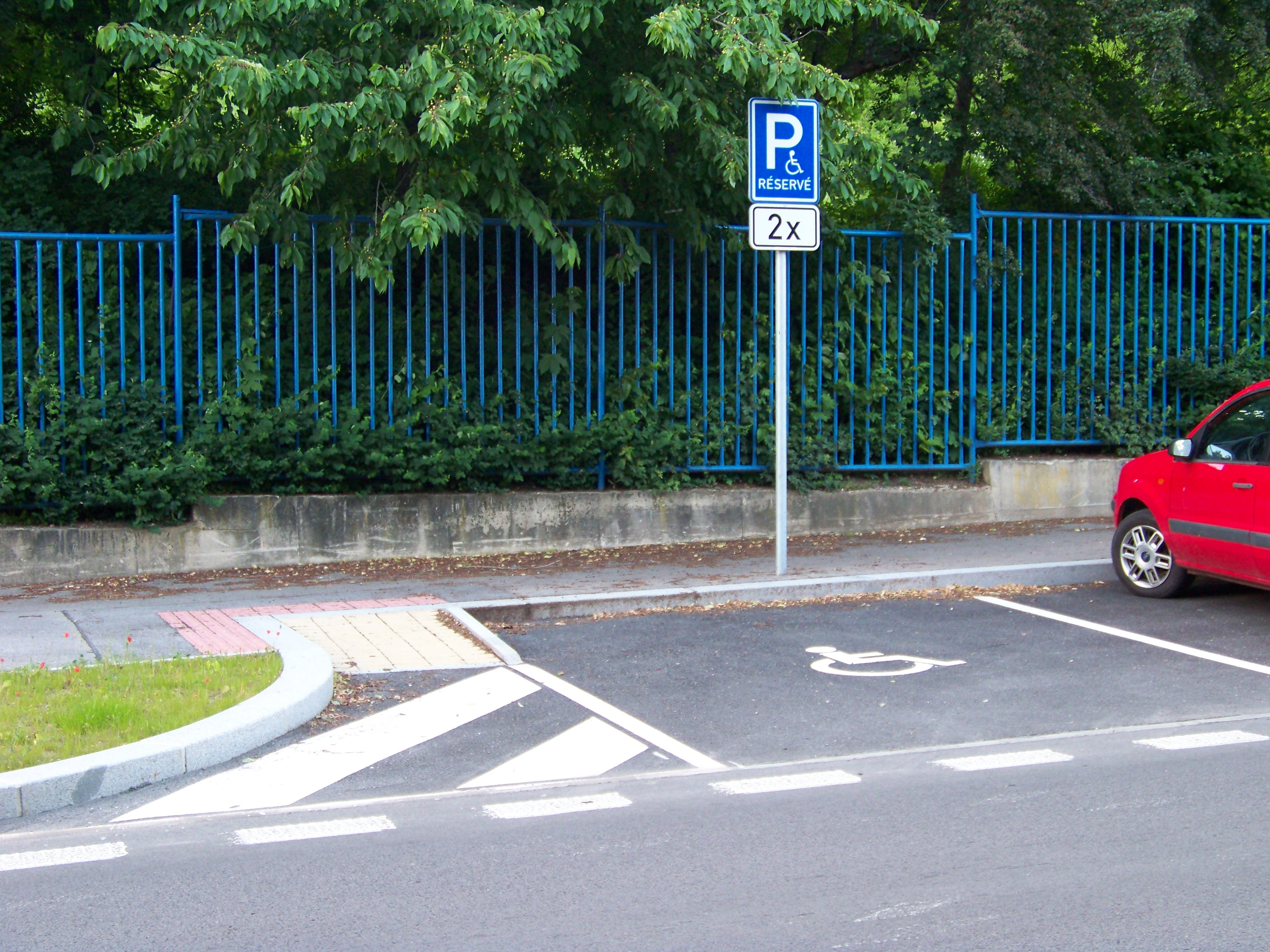 Motol, Prague, the Czech Republic. Weberova street, handicapped parking.